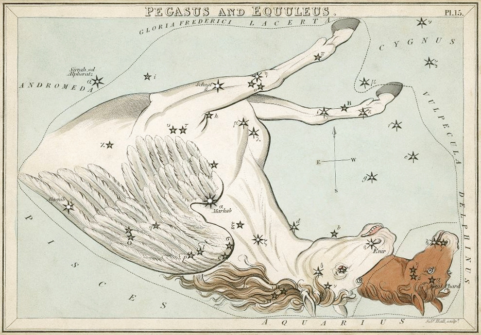 "Pegasus and Equuleus", plate 15 in Urania's Mirror, a set of celestial cards accompanied by A familiar treatise on astronomy ... by Jehoshaphat Aspin. London. Astronomical chart, 1 print on layered paper board : etching, hand-colored.